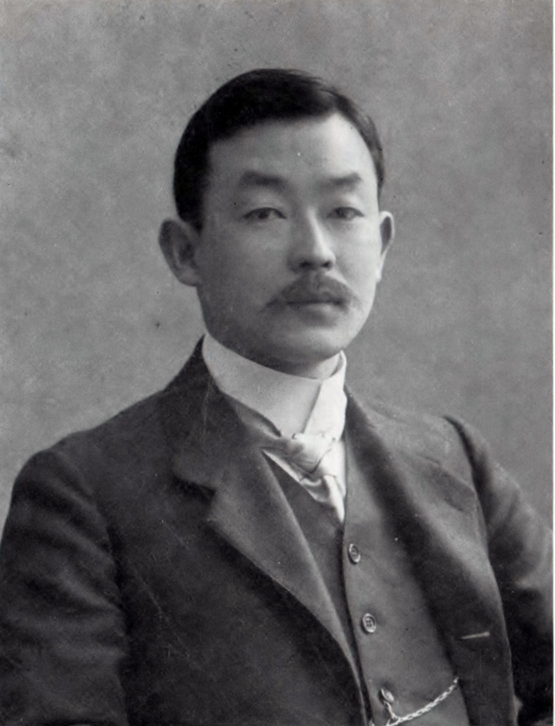 Fukada Yasukazu is a Japanese philosopher